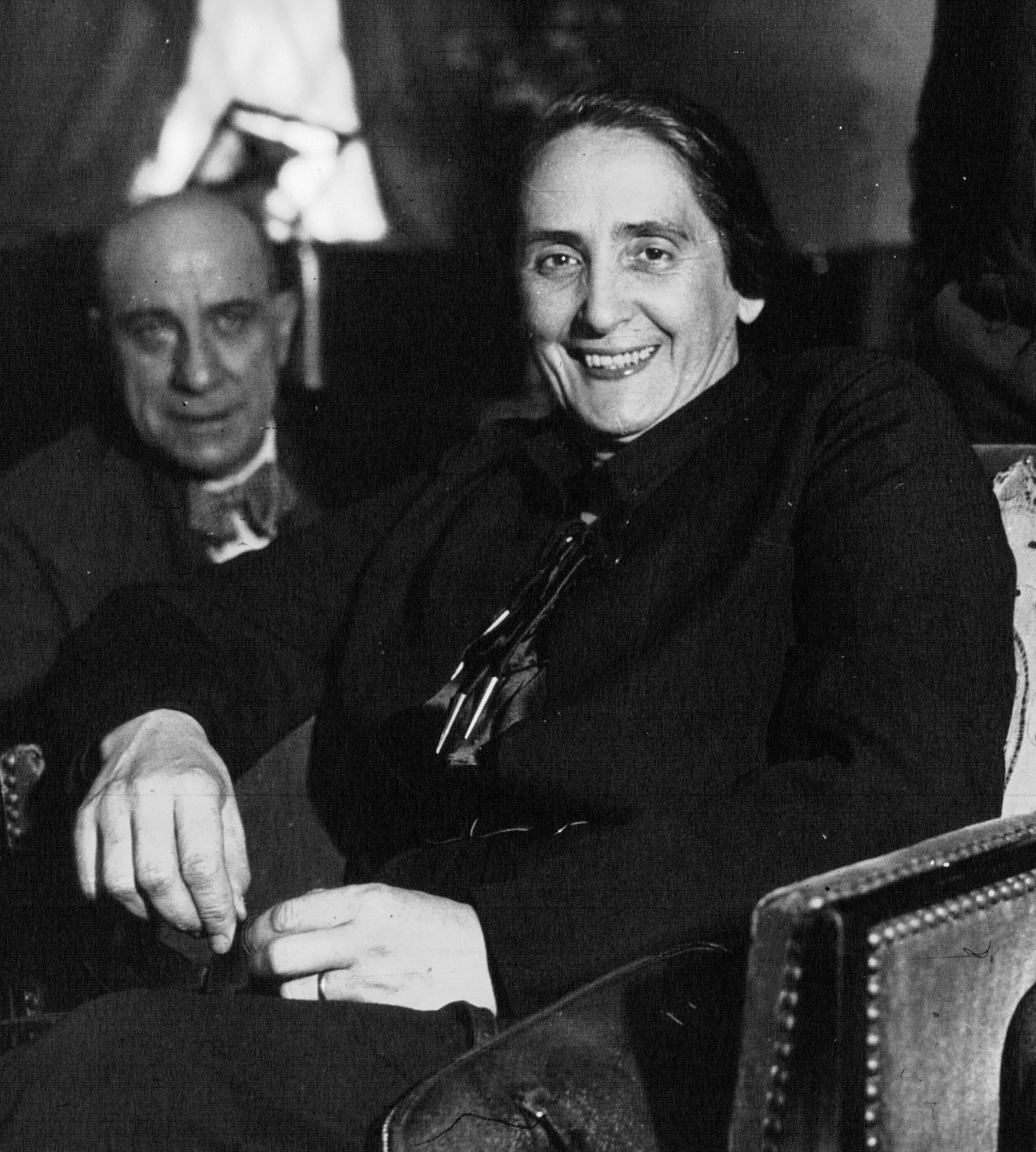 Spanish political leader Dolores Ibárruri (1895-1989).